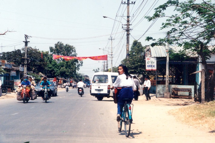 Author: Webber Source: "own work" Date: 1999